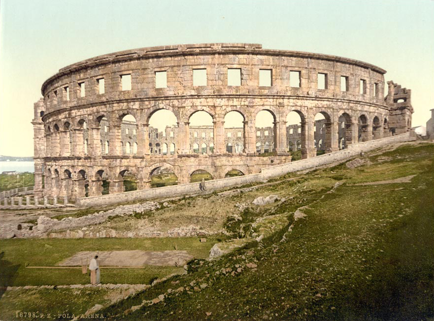 Pola the arena Istria Austro-Hungary